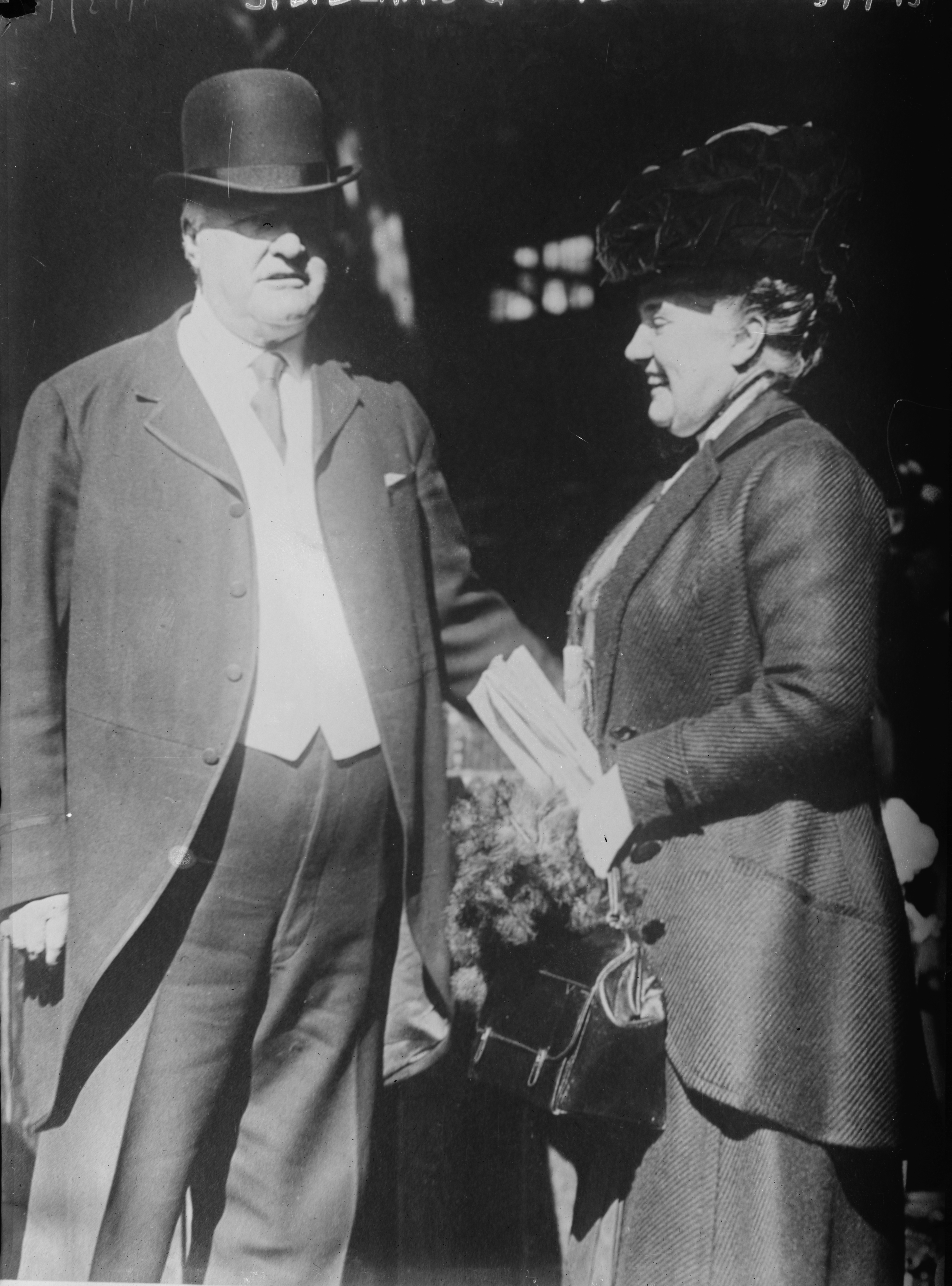 Mr. and Mrs. S.B. Elkins